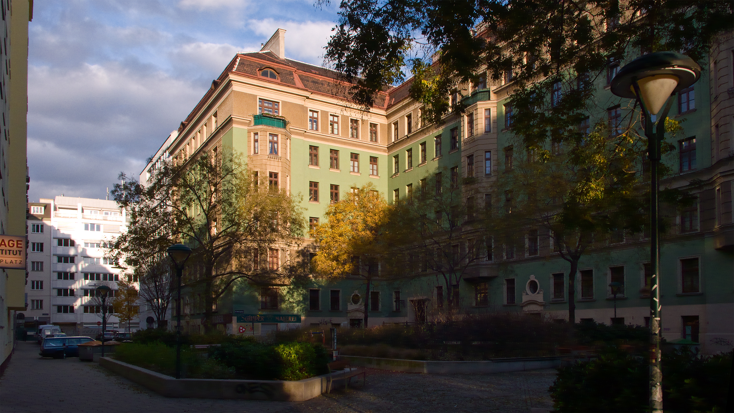 Kühnplatz in Vienna, Wieden